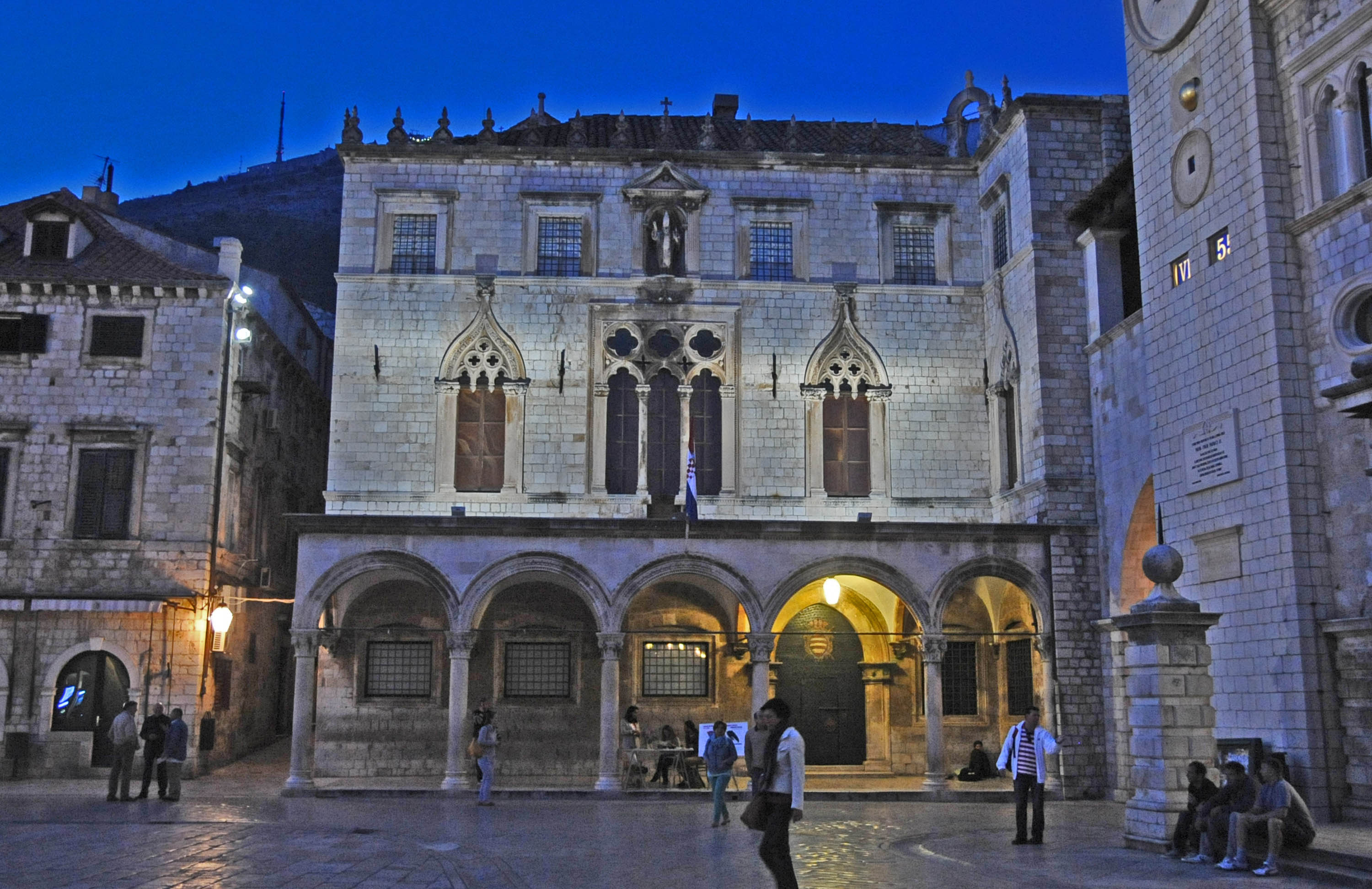 SPOINZA PALACE LIT UP AT NIGHT AT THE END OF THE STRUM BESIDE THE CLOCKTOWER AS SEEN FROM THE PRED DVOROM